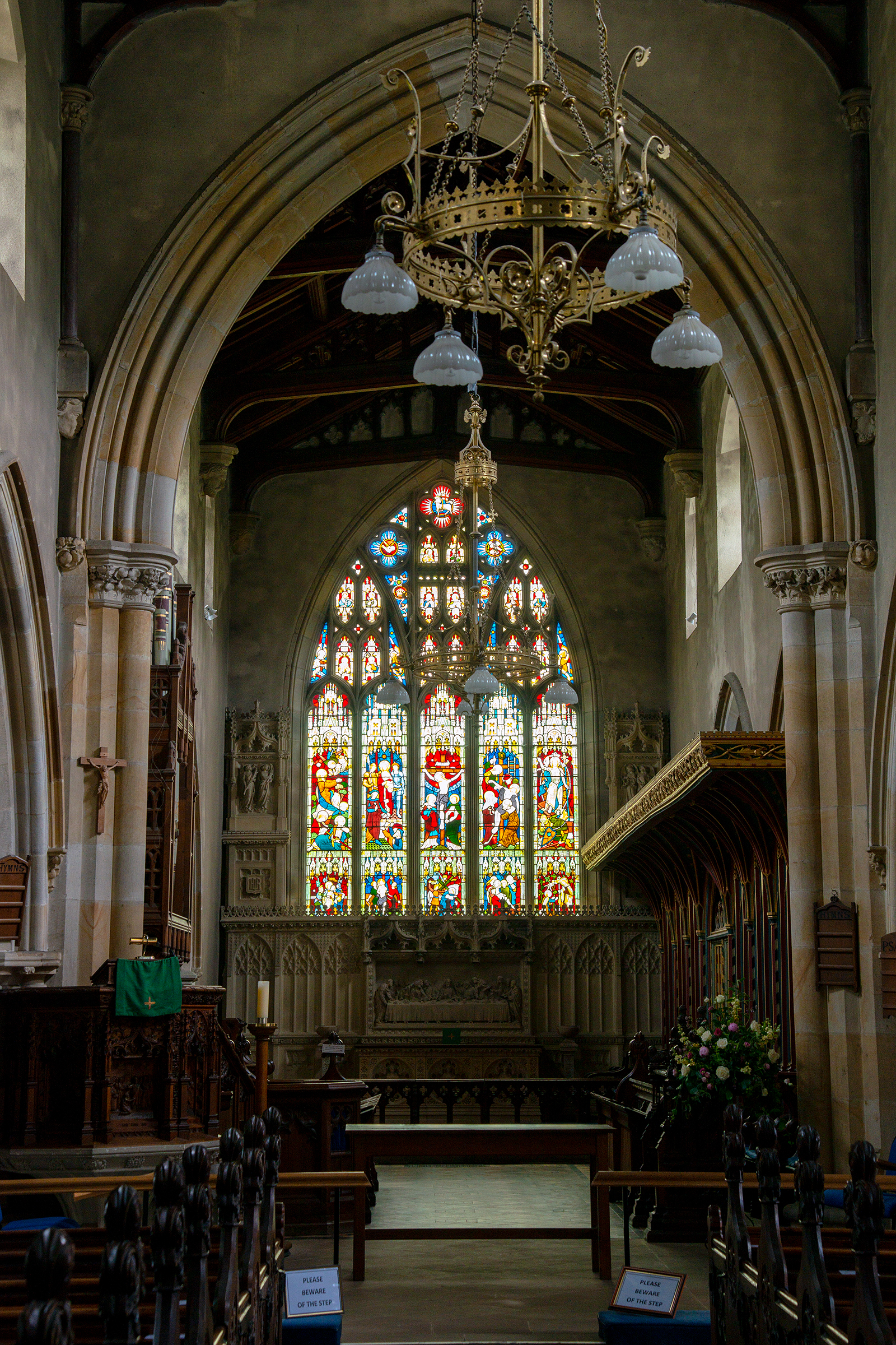 Interior of St Andrews